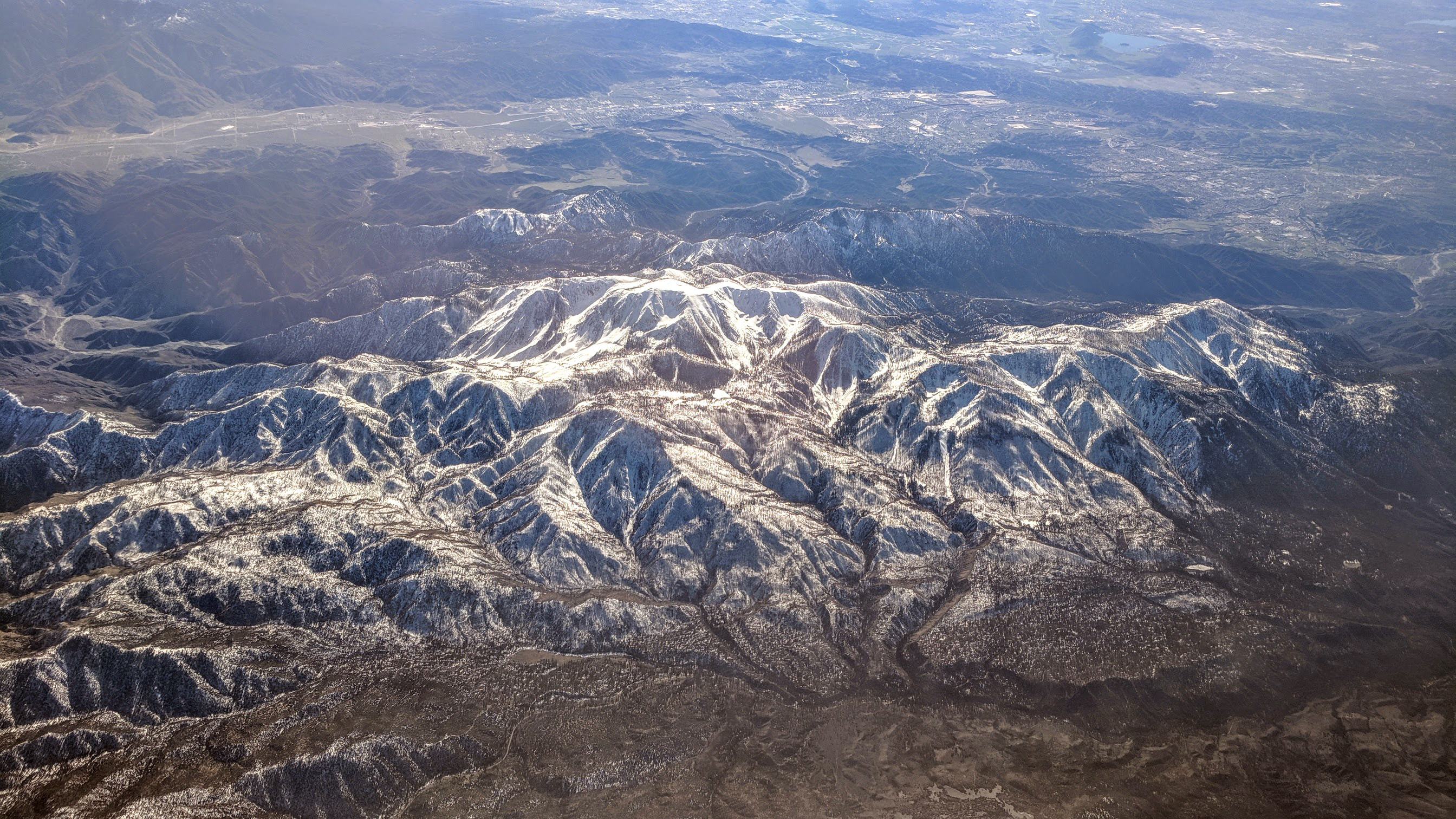 Mount San Gorgonio with snow, with Banning pass and Banning, California, in the background, aerial view from the north